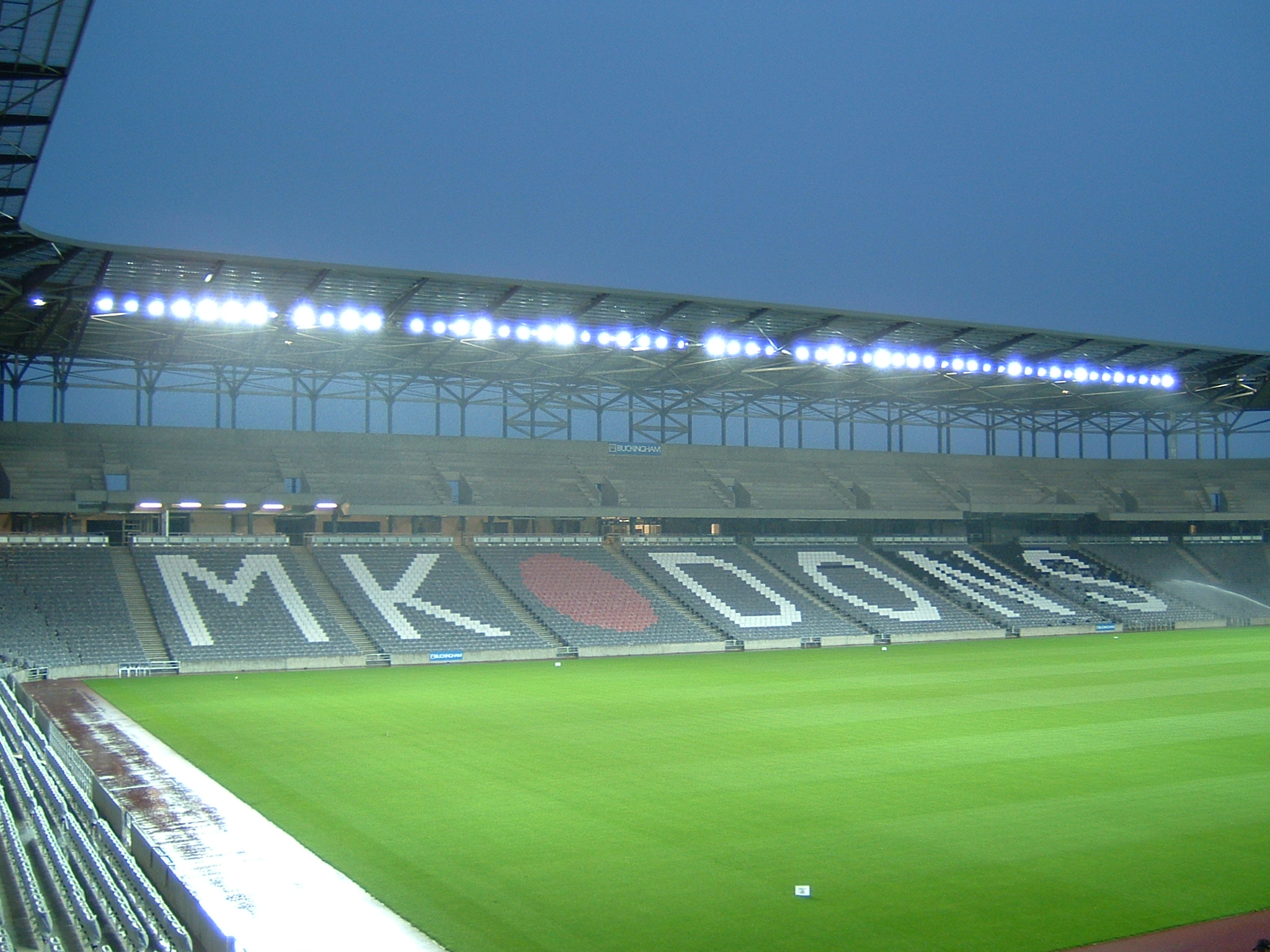 Photo of the East Stand of Denbigh Stadium taken 16 May 2007